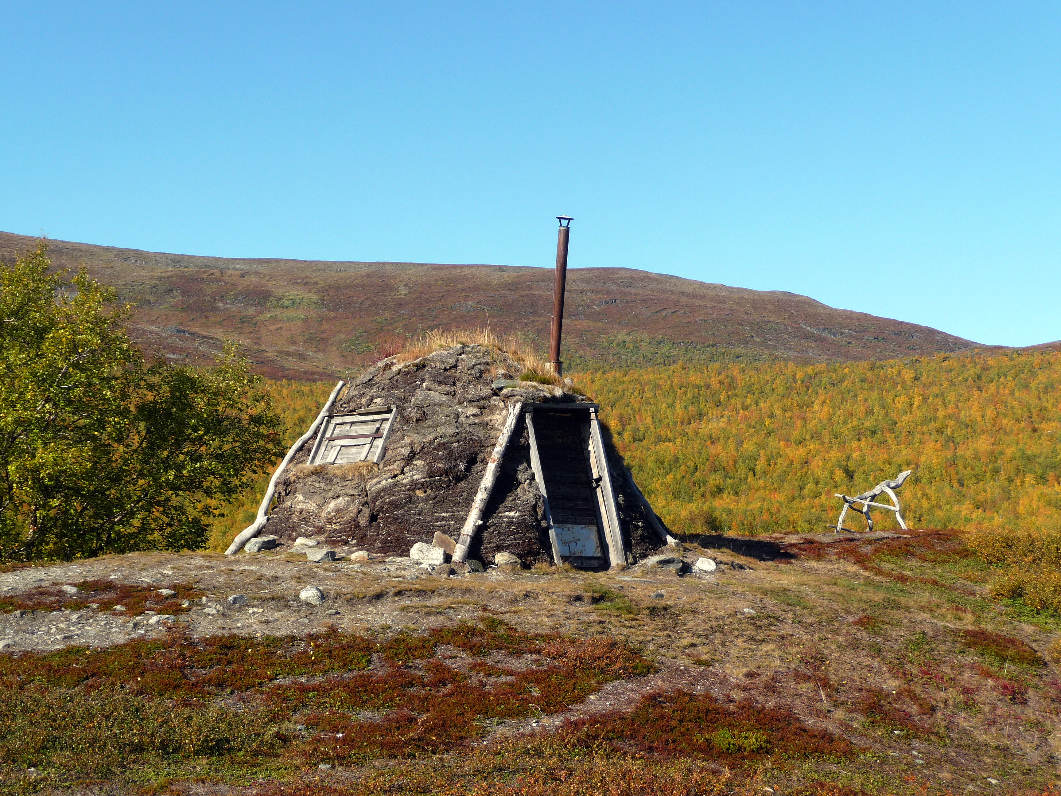 On the eastend of the lake Abiskojávri, where the Abisko Jåkka starts, is this old Sami hut.